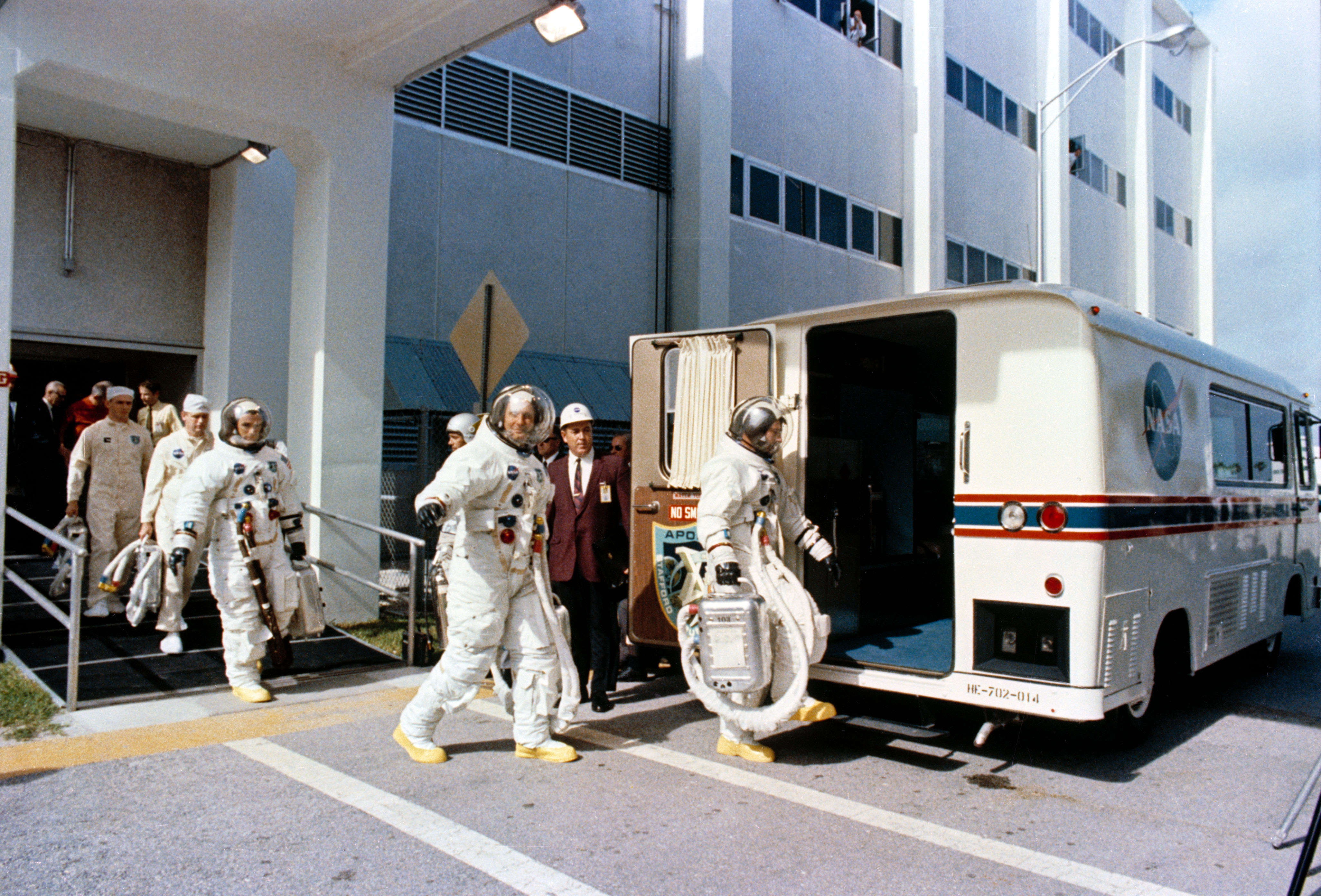 The Apollo 10 crew leaves the Kennedy Space Center's Manned Spacecraft Operations Building during the Apollo 10 prelaunch countdown. Leading is astronaut John W. Young, command module pilot, followed by astronauts Thomas P. Stafford, commander; and Eugene A. Cernan, lunar module pilot. The transfer van carried them over to Pad B, Launch Complex 39, where their spacecraft awaited them. Liftoff for the lunar orbit mission was at 12:49 p.m. (EDT), May 18, 1969.